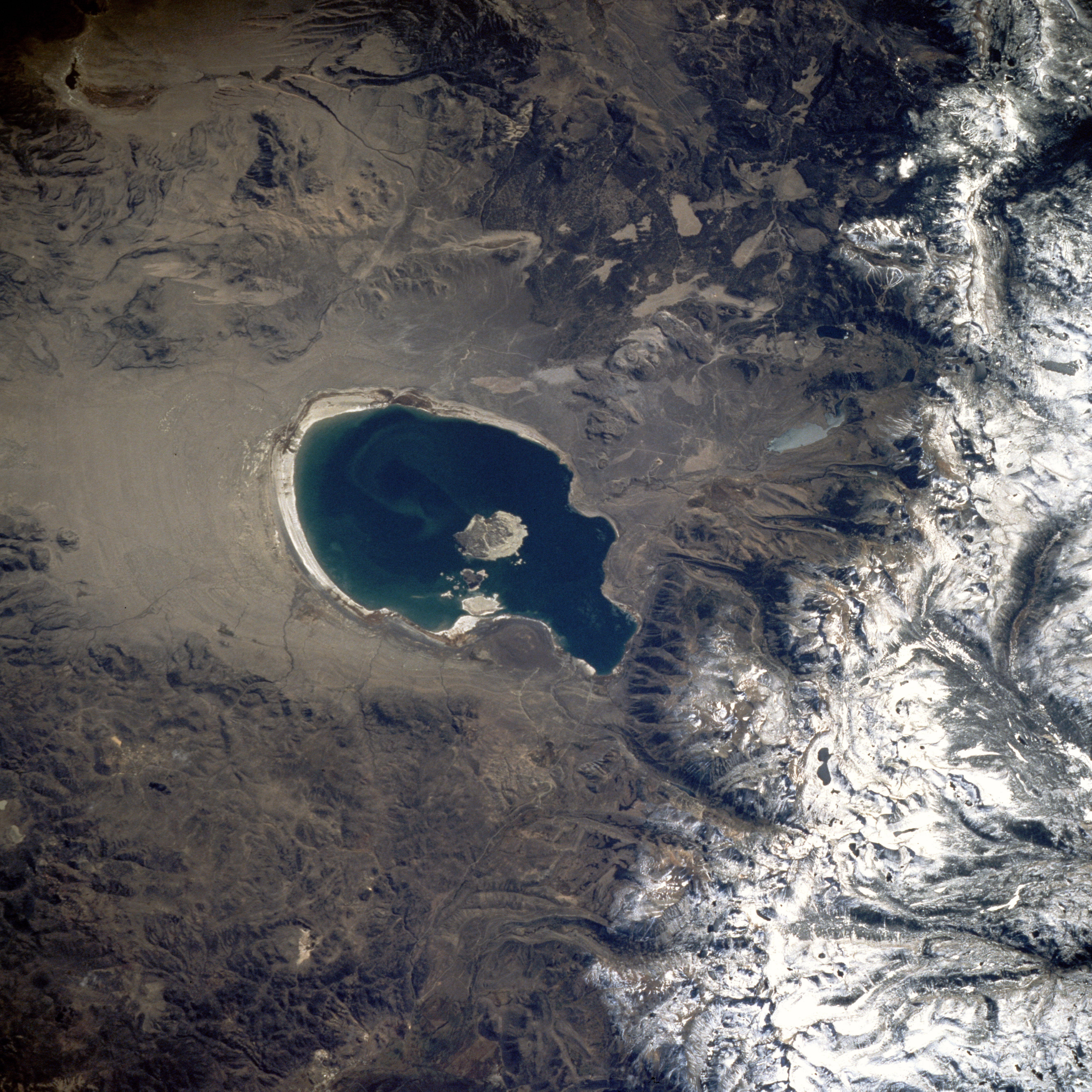 Located on the eastern side of the high, snow-covered Sierra Nevada, Mono Lake can be seen in the center of this low-oblique photograph. When this photograph was taken in 1985, the lake’s water volume had already decreased, as evidenced by the exposed shoreline surrounding the lake.